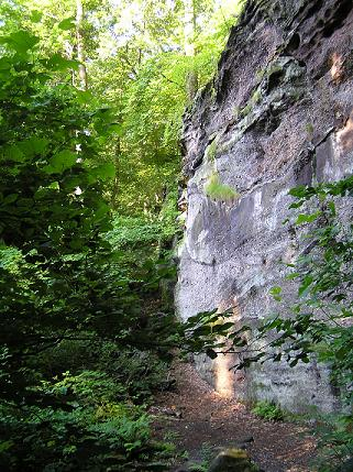 Picture by H. Petruschke, June 2006. Released to public domain with request for credit.